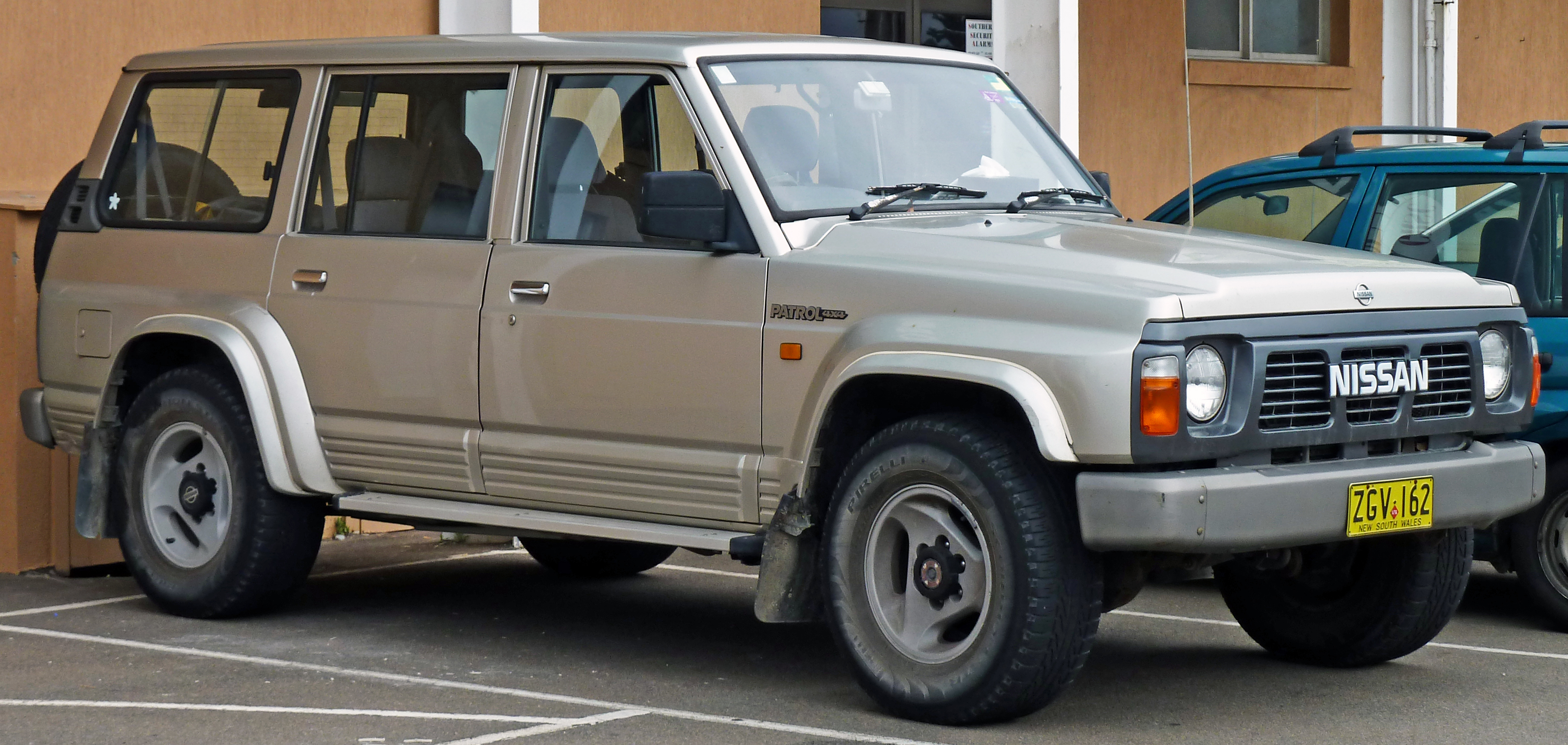 1992 Nissan Patrol (GQ II) ST wagon. Photographed in Sandringham, New South Wales, Australia.